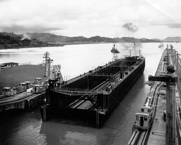 USS ARD-1 under tow by USS Bridge (AF-1) exiting a Lock in the Panama Canal, 28 October 1934. US Navy photo